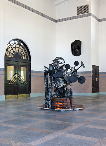 Psychotic Mickey Mouse Sculpture by Gregory Maass and Nayoungim Seoul Culture Station, 2012